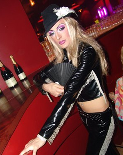 ladymaxx travesti